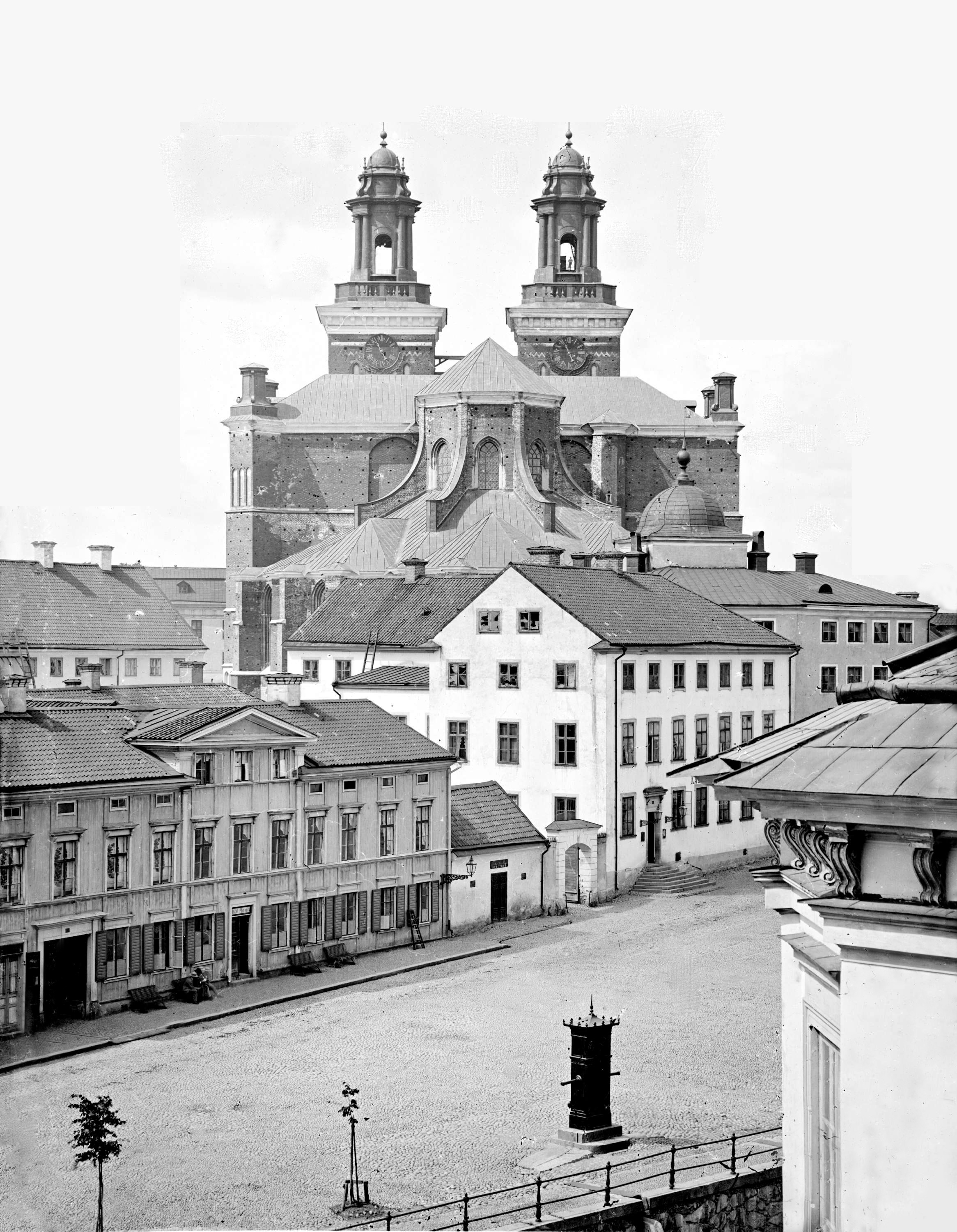 Uppsala Cathedral